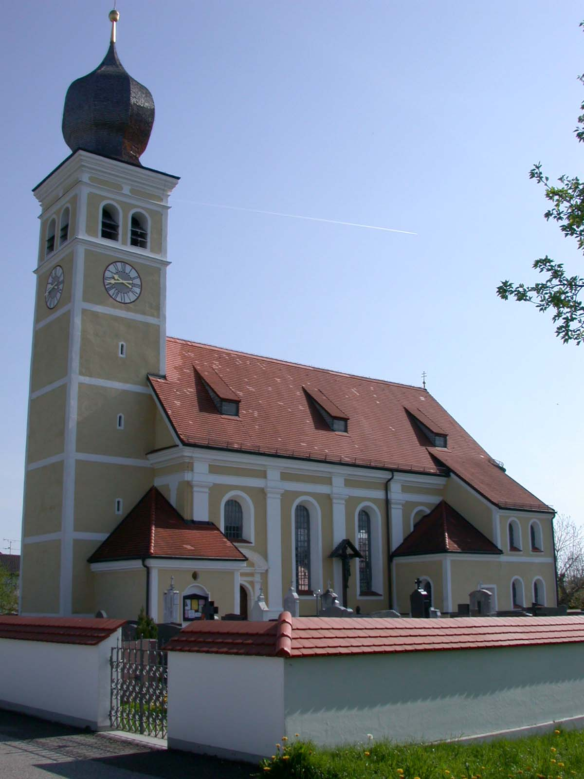 St.Michael Church in Goetting (Bruckmuehl), Germany This is a photograph of an architectural monument.